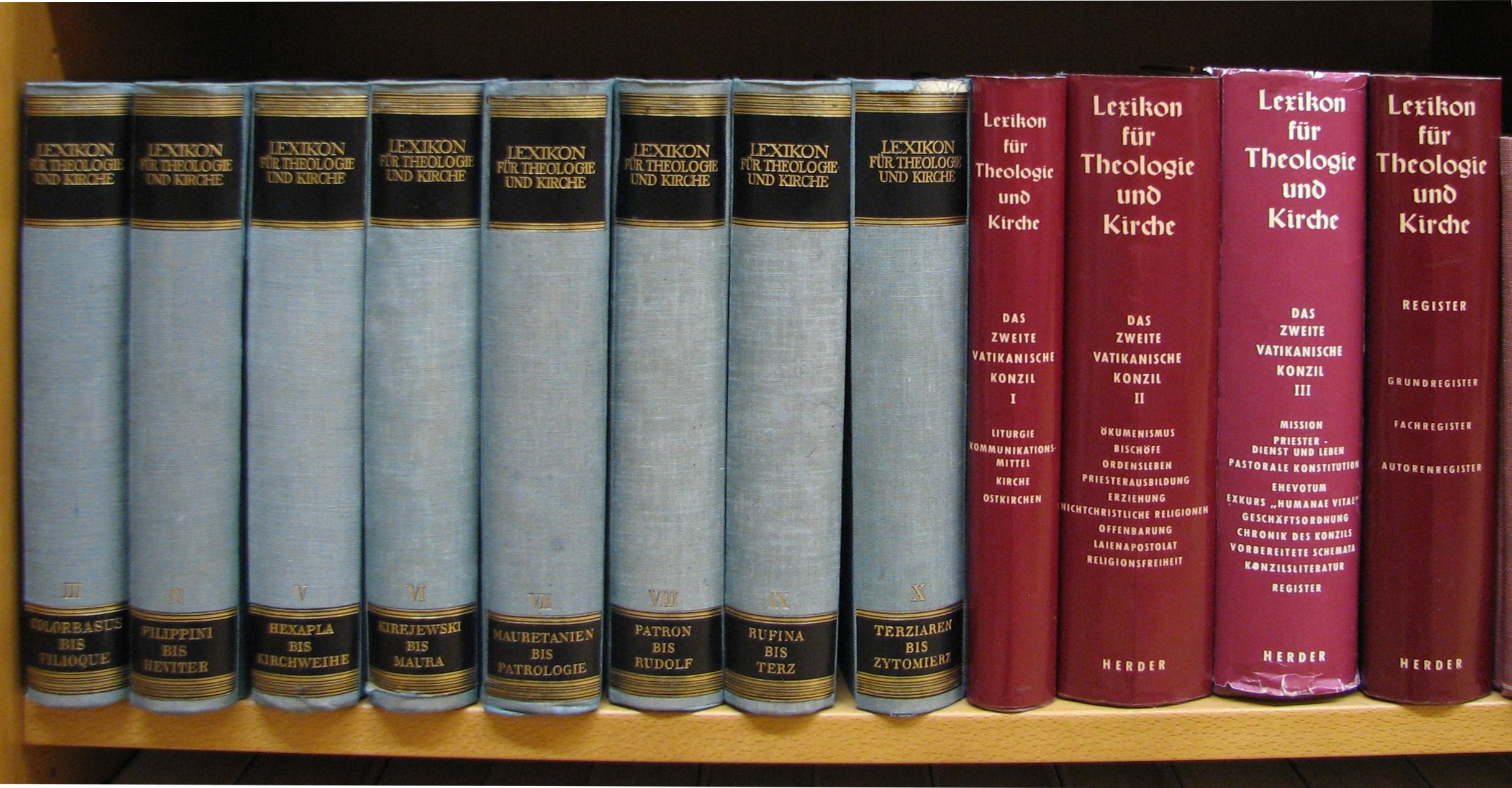 Lexikon für Theologie und Kirche. Second edition, 1957 - 1968. Edited by Josef Höfer and Karl Rahner. (Two volumes are missing in the image.)